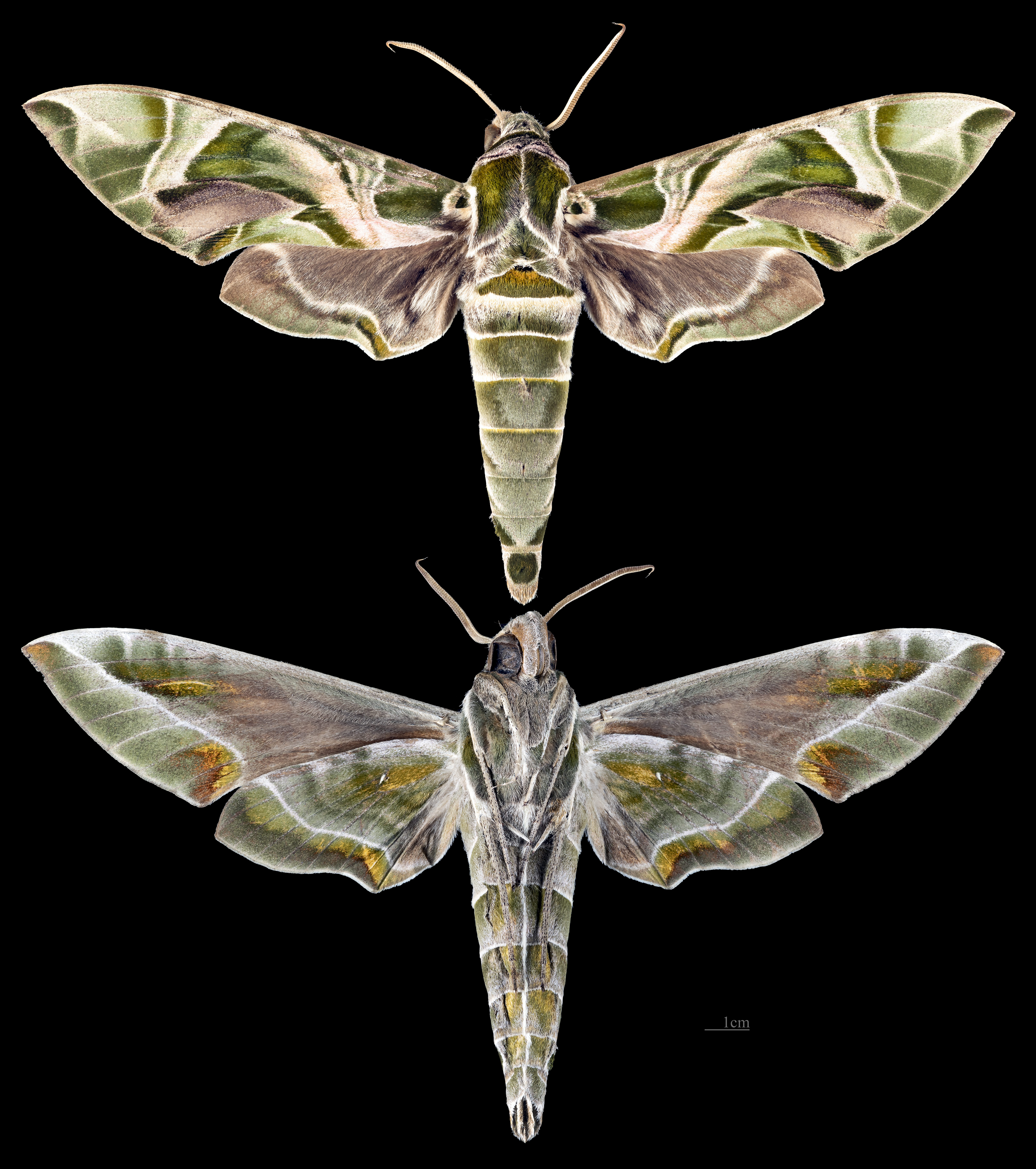 Daphnis nerii - Two views of same specimen Collection of the Mathematician Laurent Schwartz